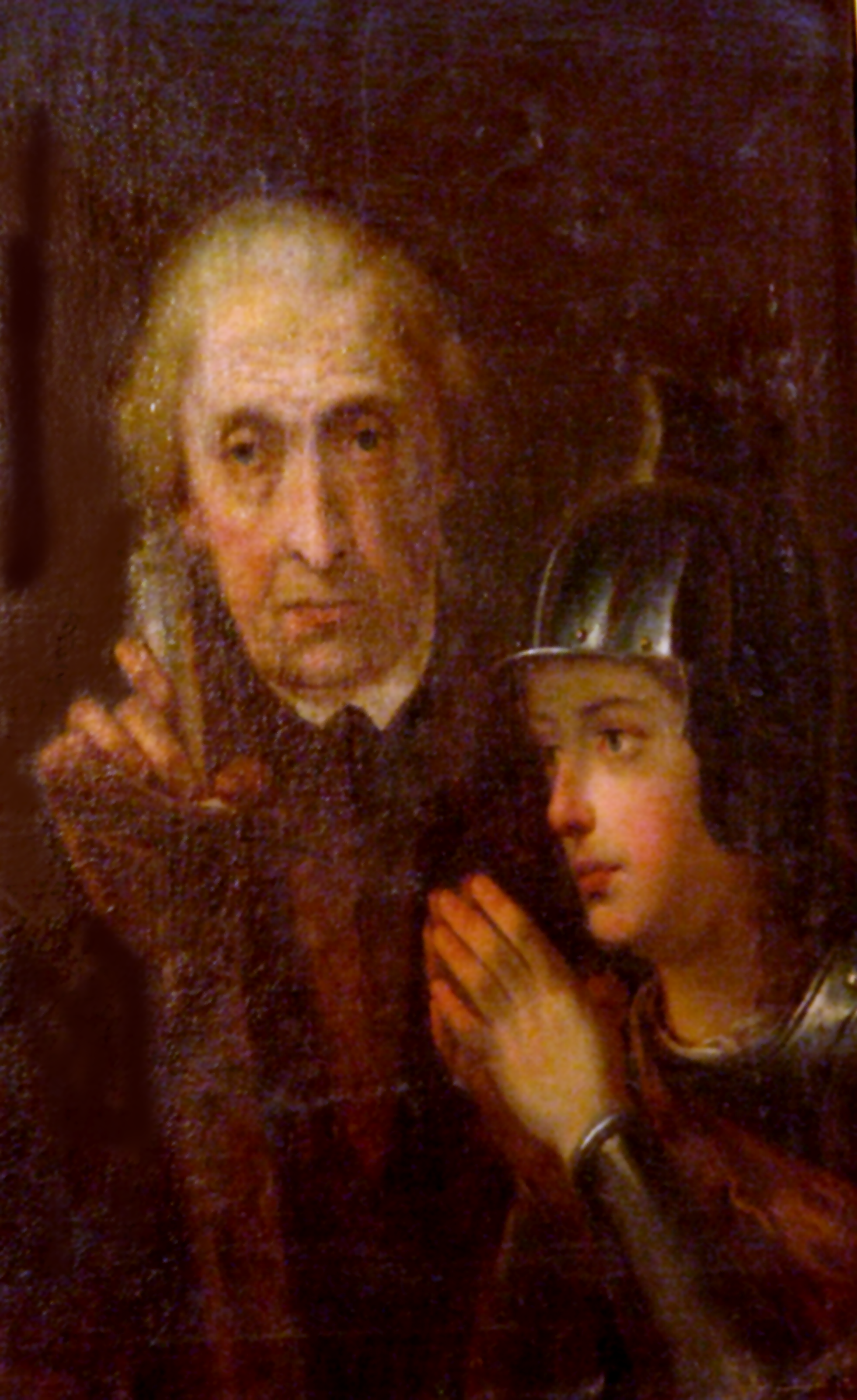 Leszek the White and Voivode Goworek